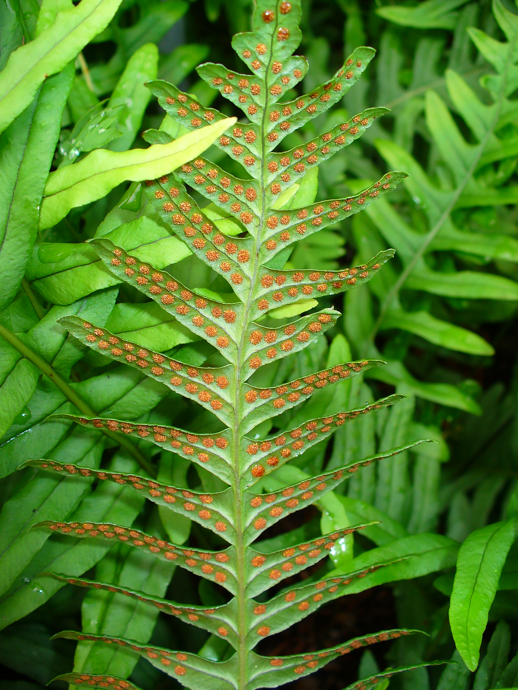 Polypodium vulgare, Polypodiaceae, Common Polypody, sori. Botanical Garden KIT, Karlsruhe, Germany.